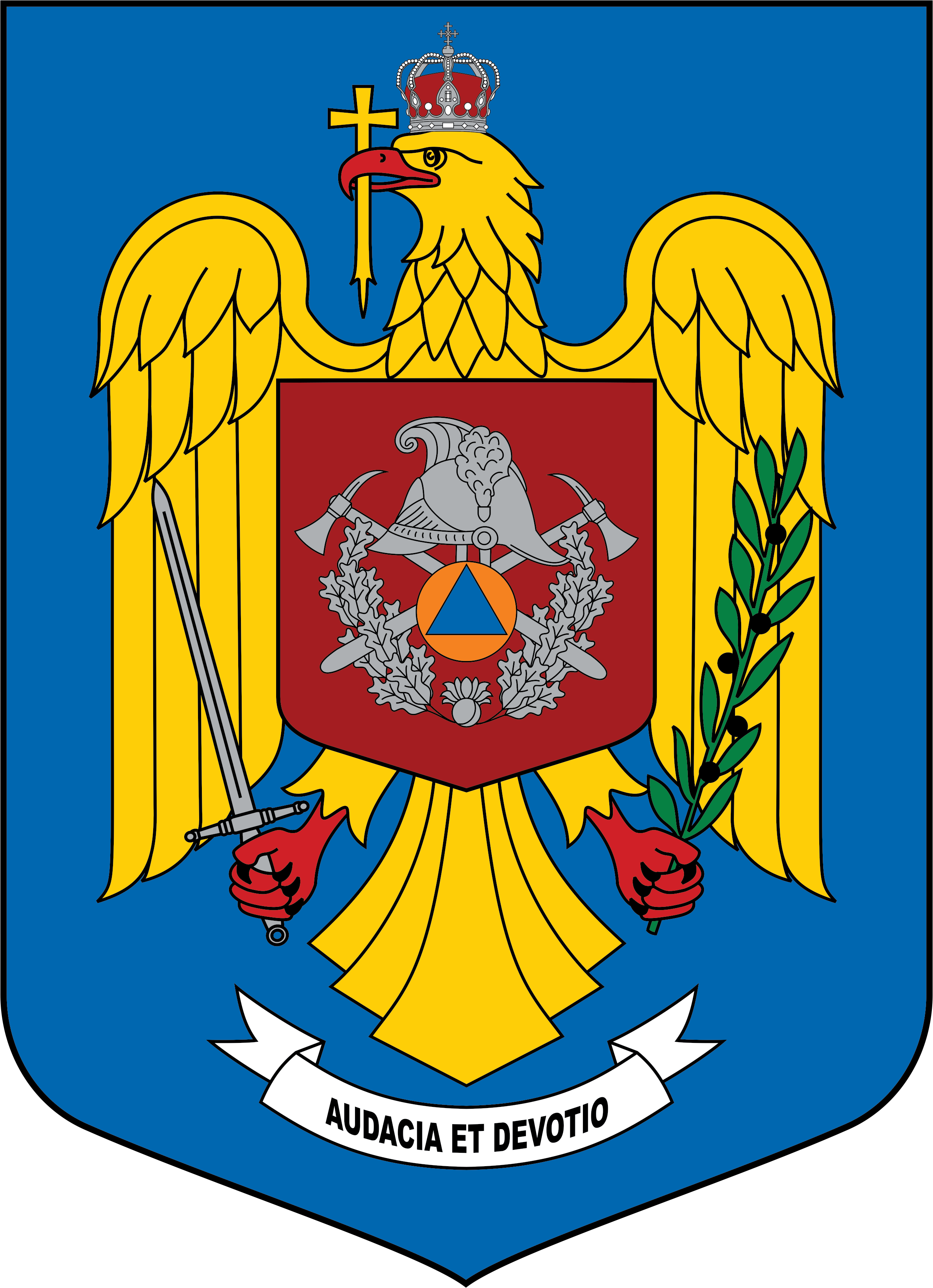 IGSU Coat of Arms